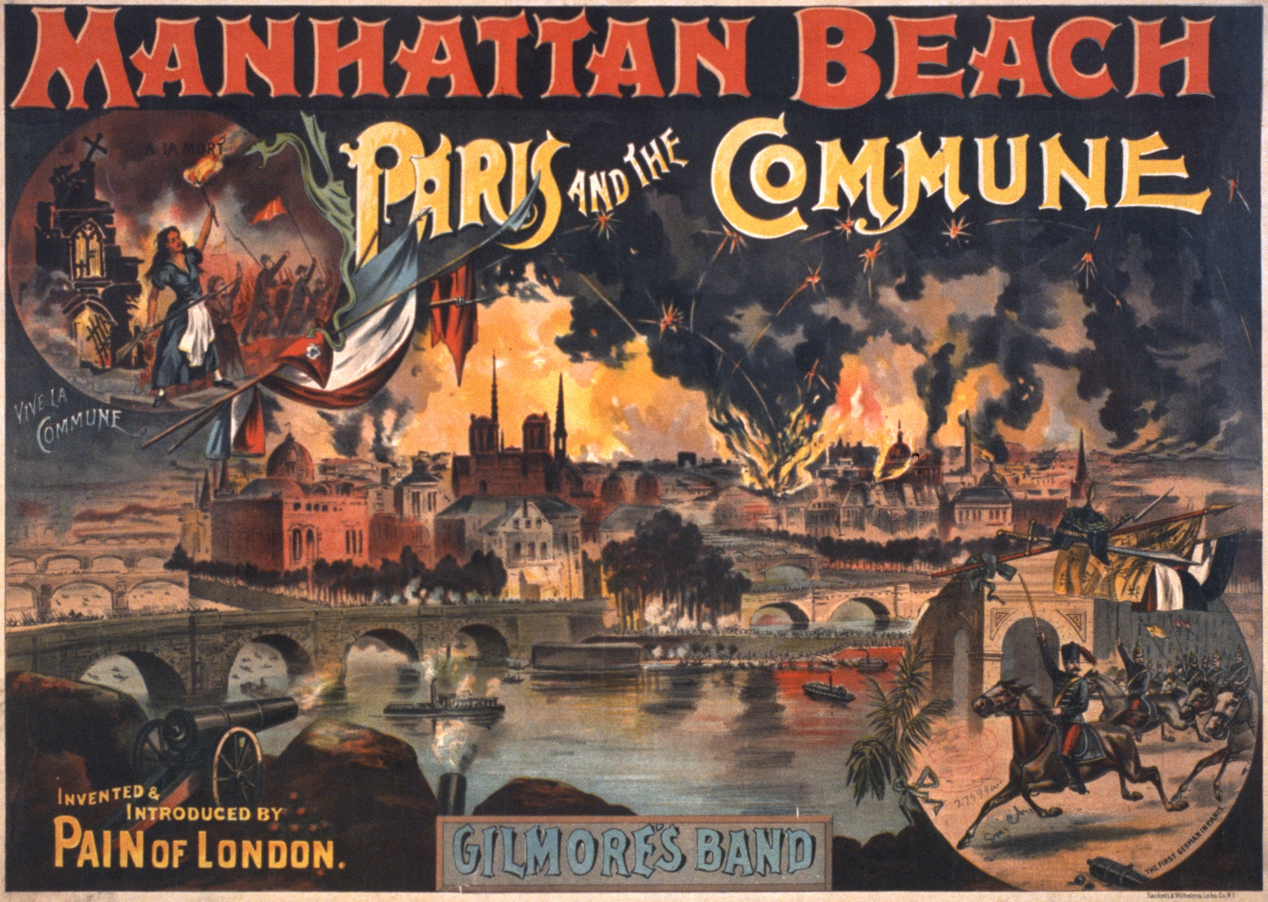 Manhattan Beach, invented and introduced by Pain of London: Paris and the Commune. Gilmore's band. Poster for a pyrotechnical spectacle by Sackett & Wilhelms Lithograph Co., New York, 1891. After a little research, it turns out there is in fact a fireworks company called Pain's, founded by Henry J. Pain, the "prince of pyrotechnics", and it still exists. The spectacle advertised in the poster did in fact happen at Manhattan Beach, Coney Island. Here is what the New York Times wrote on 8 September 1891: Fireworks at Manhattan. A novel display by moonlight on the waterfront. The crowd at Manhattan Beach at night was double that of the afternoon, the attraction being Pain's carnival of fireworks. The amphiteatre was packed. After the regular display, "Paris, from Empire to Commune," a number of set pieces were exhibited. Their effect was seriously marred however, by the fact that they had been on storage since last Saturday, and had become damp. One fire rocket was spread forth, at a great height, the "Essence of Moonlight." More performing arts posters